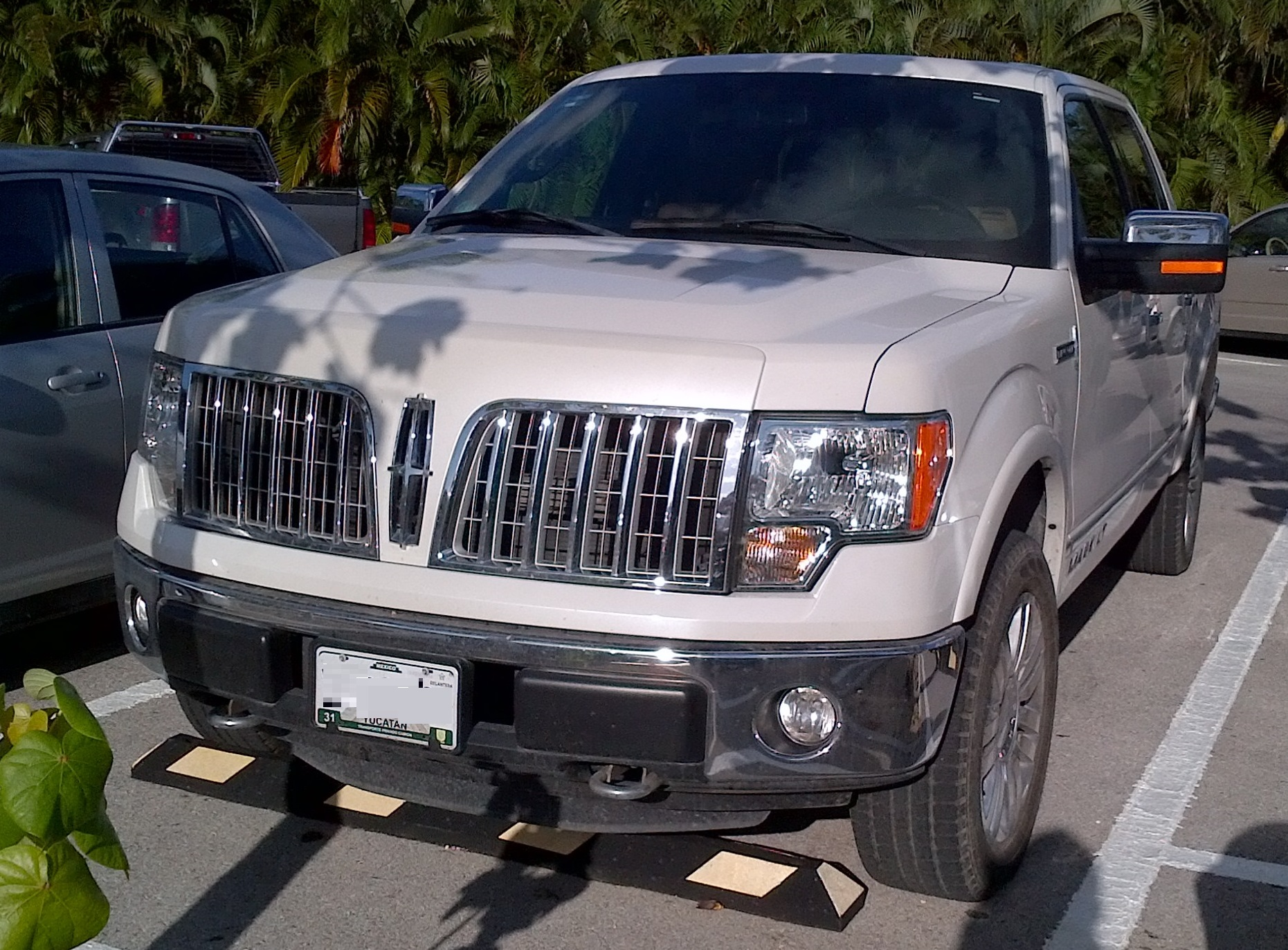 Lincoln Mark LT photographed in Cancun, Quintana Roo, Mexico.